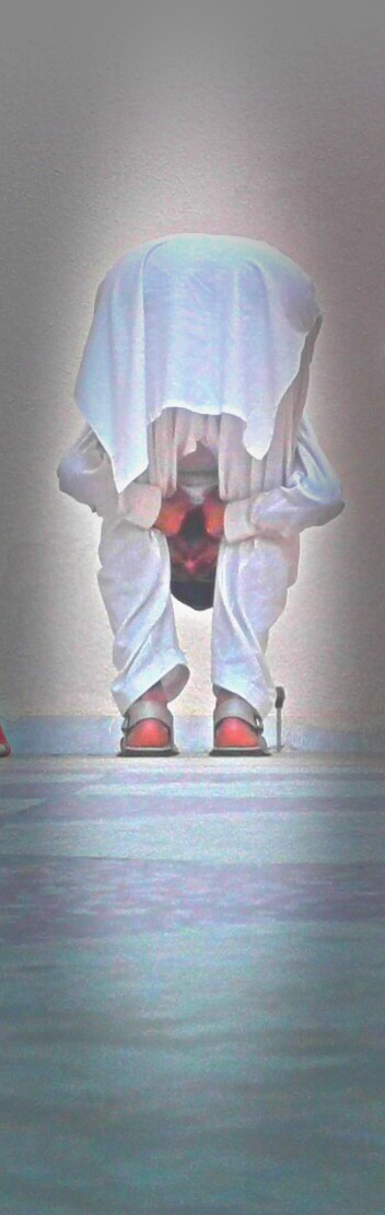 A Pakistani teenager doing the standing (bottom up) murga punishment in public for lying.